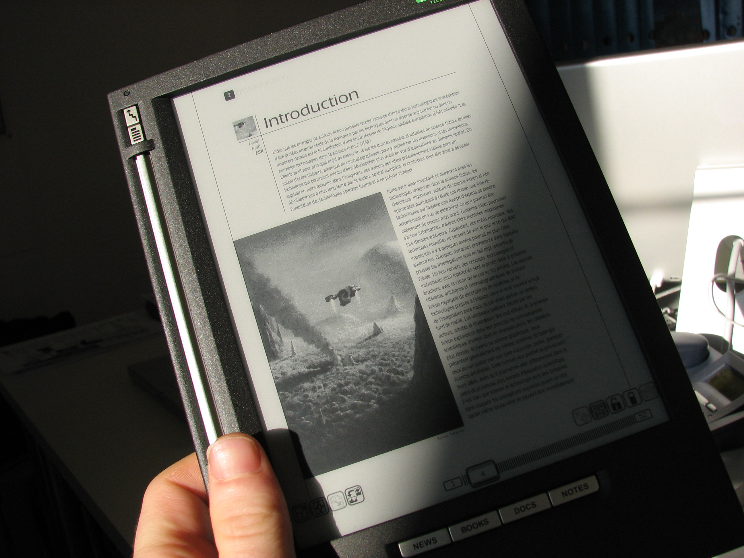 Light and shadow on an Irex iLiad ebook reader. Electronic paper. Electrophoretic display.